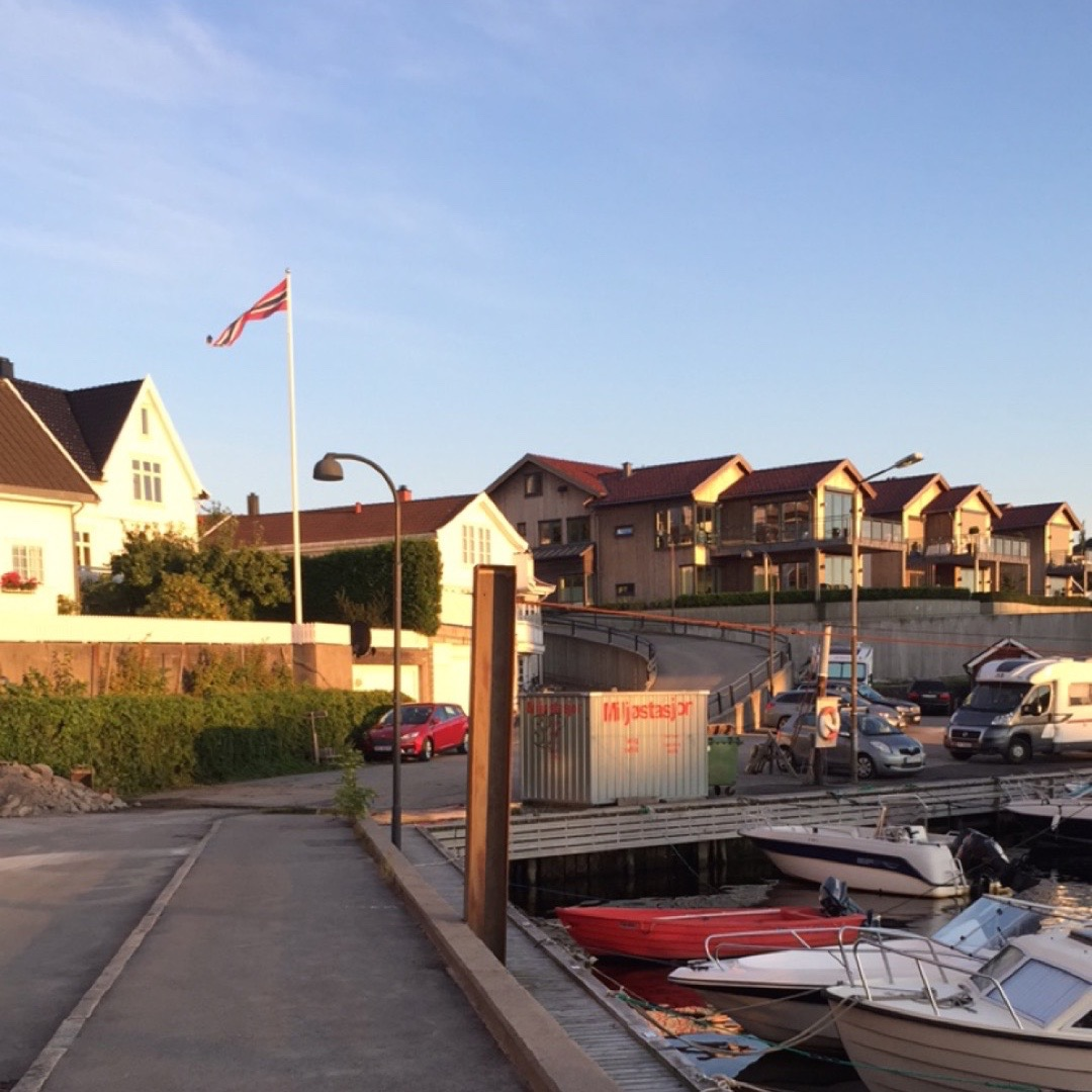 Høivold brygge, Kristiansand